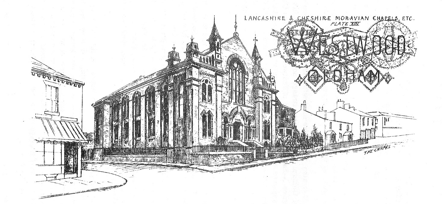 View of Westwood Moravian Church, Oldham, then Lancashire (now Greater Manchester), England, circa 1887